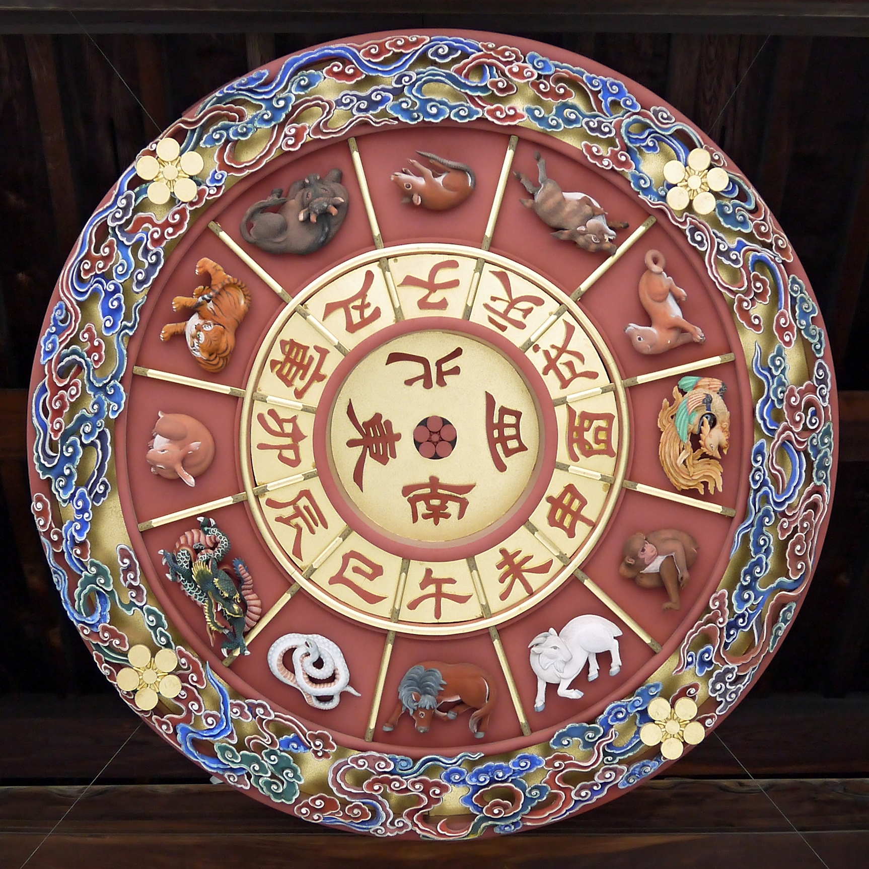 Ōsaka Tenman-gū (大阪天満宮), in Osaka, Osaka Prefecture, Japan.